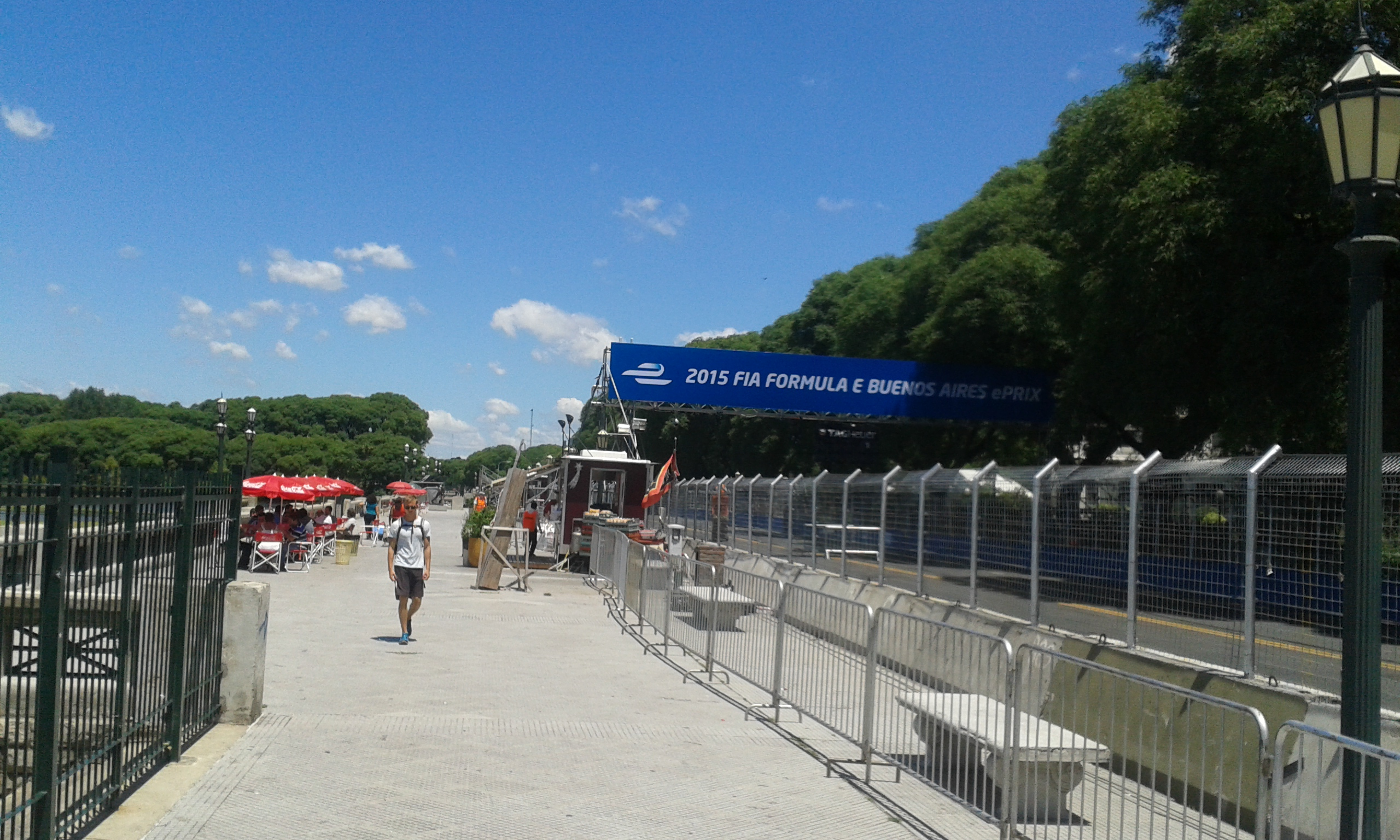 Start point, alongside a typical food stand in the Costanera Sur.